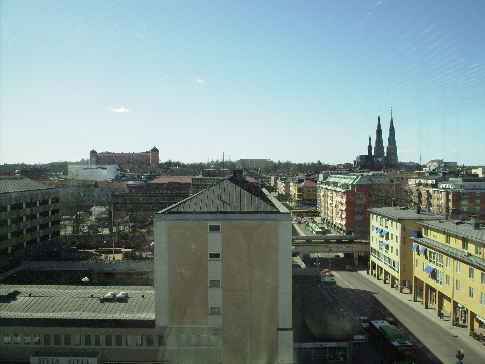 Uppsala from the concert building